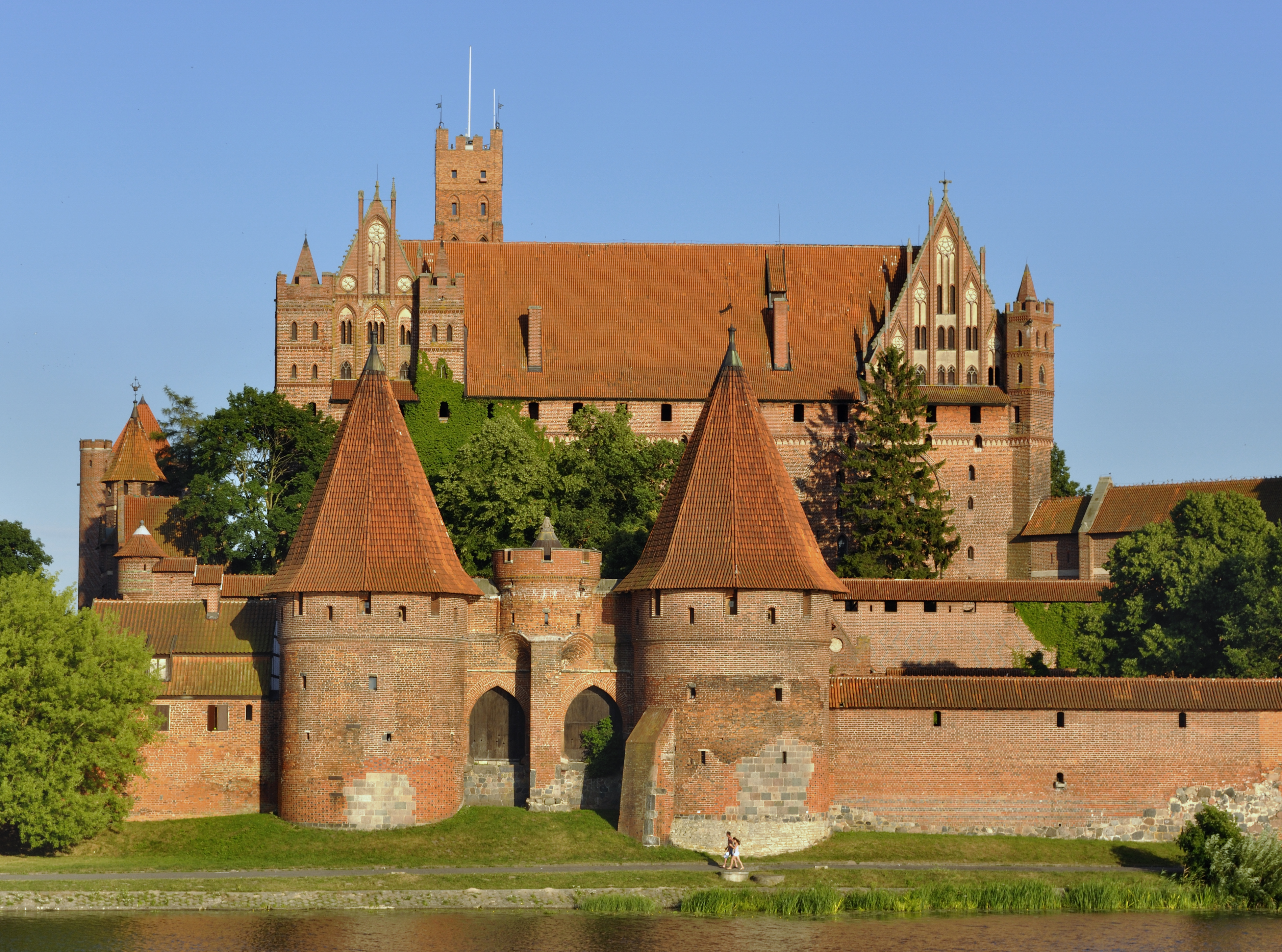 Picture taken in Malborg after Wikimania 2010 conference. High Castle and bastions on Nogat river.